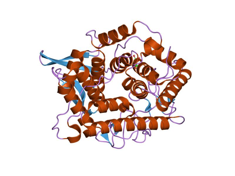 Cartoon representation of the molecular structure of protein registered with 1h12 code.